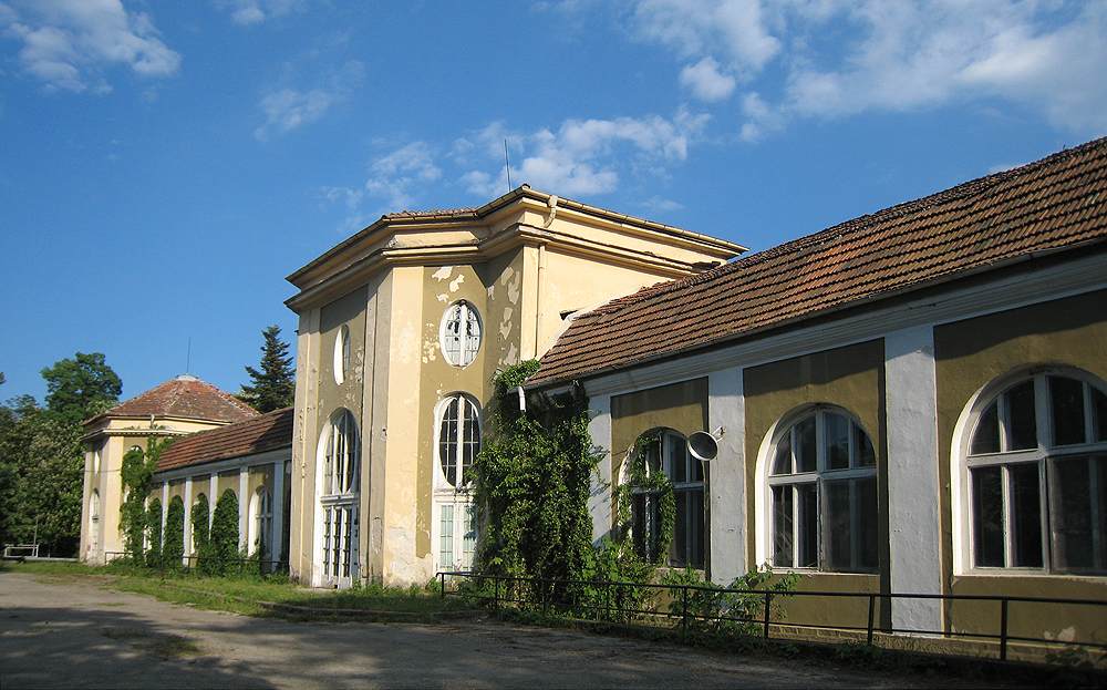 The first Bulgarian casion: Royal Spa Casino of Varshets - now idle, Bulgaria